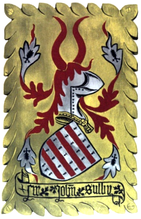 Garter Stall Plate of Sir John Sully (born c.1283 - died c.1388), KG, of Ruxford and Iddesleigh in Devonshire. Arms: Ermine, four barrulets gules. Apparently a modern reproduction (note screw fastenings), as according to Nicolas, Sir Nicholas Harris The Controversy between Sir Richard Scrope and Sir Robert Grosvenor in the Court of Chivalry AD MCCCLXXXV - MCCCXC, Volume 2, London, 1832, pp. 240–3, biography of Sir John Sully [1] his Garter stall plate does not survive, but was recorded by the antiquarian Elias Ashmole (d.1692)[1] as showing arms of Ermine, four barrulets gules with crest Two bull's horns.[2] His family's arms are however given differently by the Devon historian Sir William Pole (d.1635) as Ermine, three chevrons gules[3] This image published in Hope, 1901, plate 33